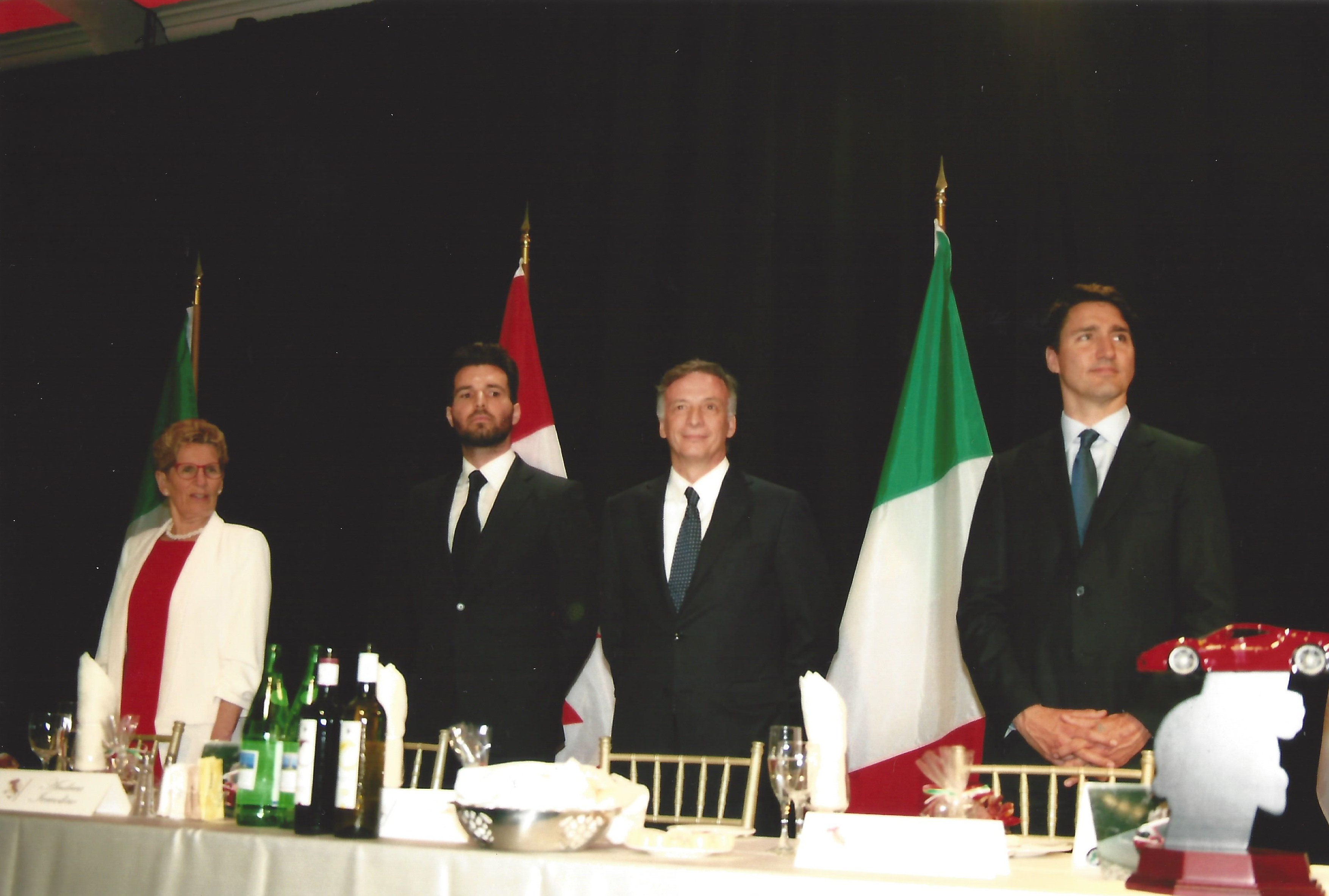 Andrea Iervolino, Ontario Premier Kathleen Wynne, CEO of Fiat Chrysler Sergio Marchionne, and the Prime Minister of Canada Justin Trudeau . Iervolino received an award from the PM and the Lazio Federation of Ontario during the 2017 Canadian Screen Awards.